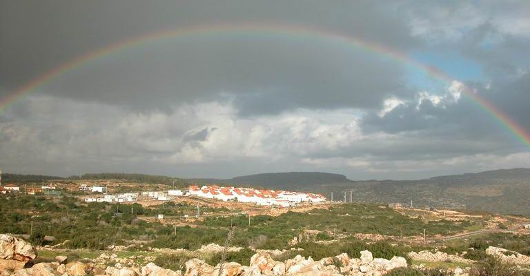 Tal Menashe - view from East under the rainbow